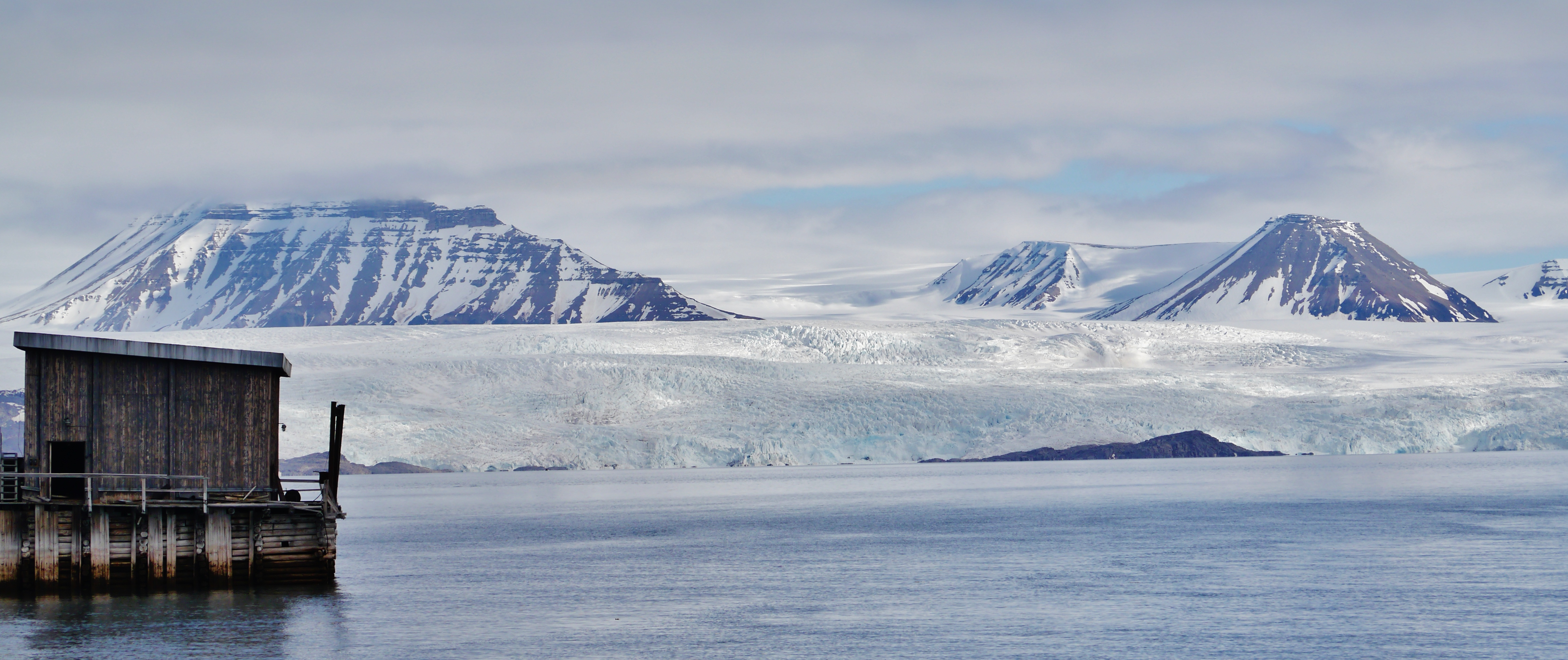 View from Pyramiden to the Environment, Spitsbergen, Norway